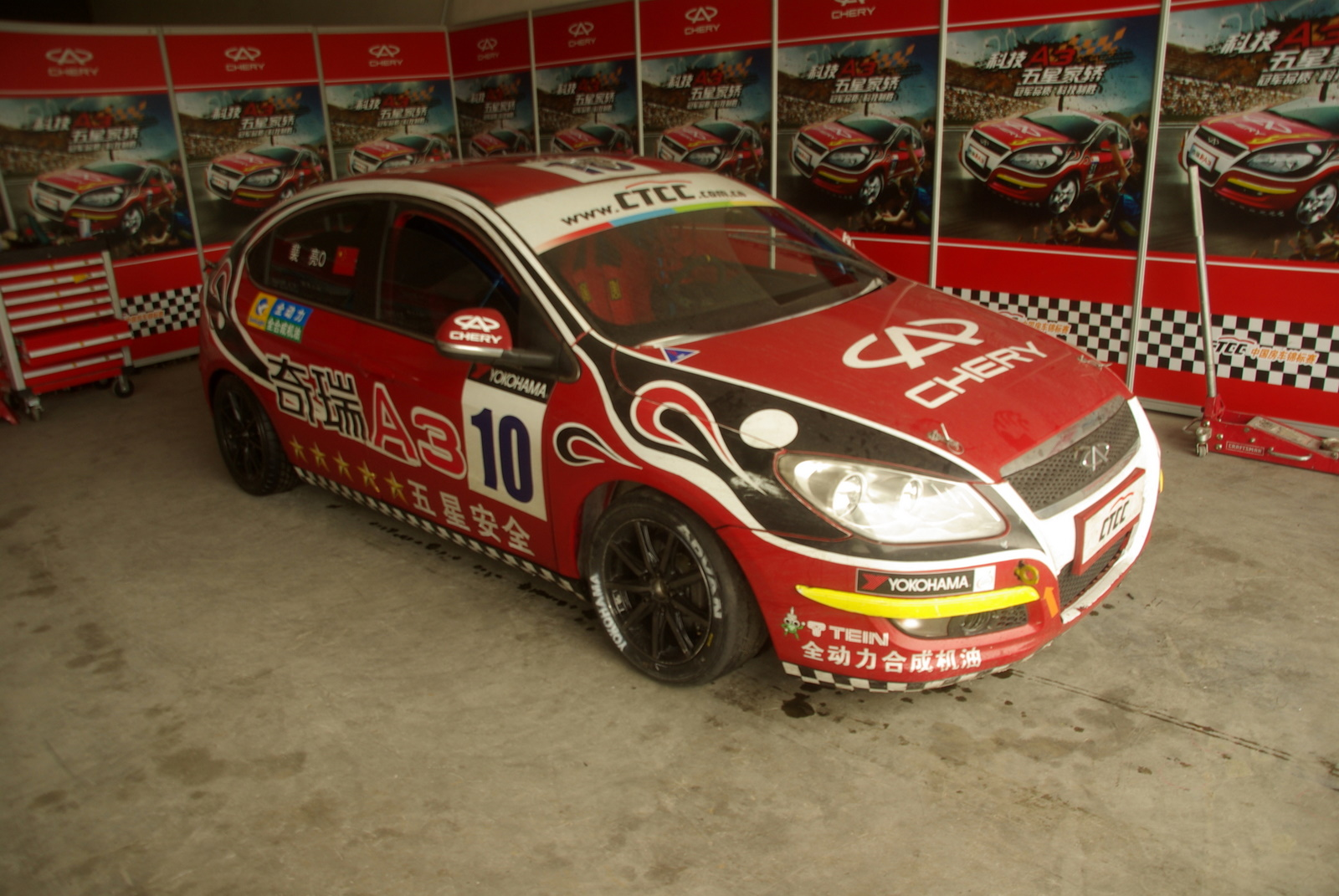 Chery A3 as racing car -- Chengdu CTCC 2011